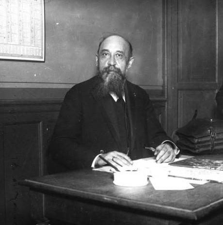 Photograph of Romanian historian Nicolae Iorga (Jorga), presumably taken at the Aviary Exhibit in Versailles.